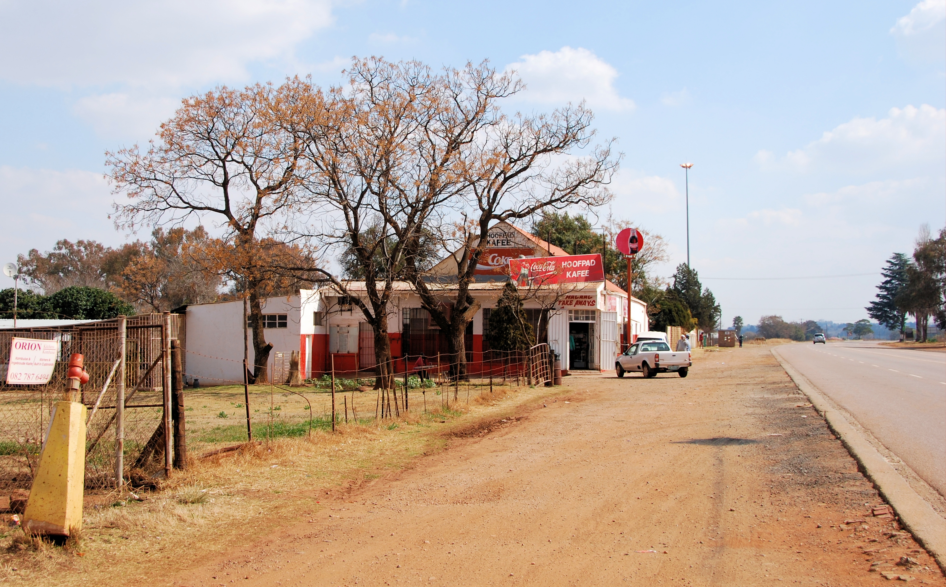 R509 road through Derby, a small town situated in North West province of South Africa